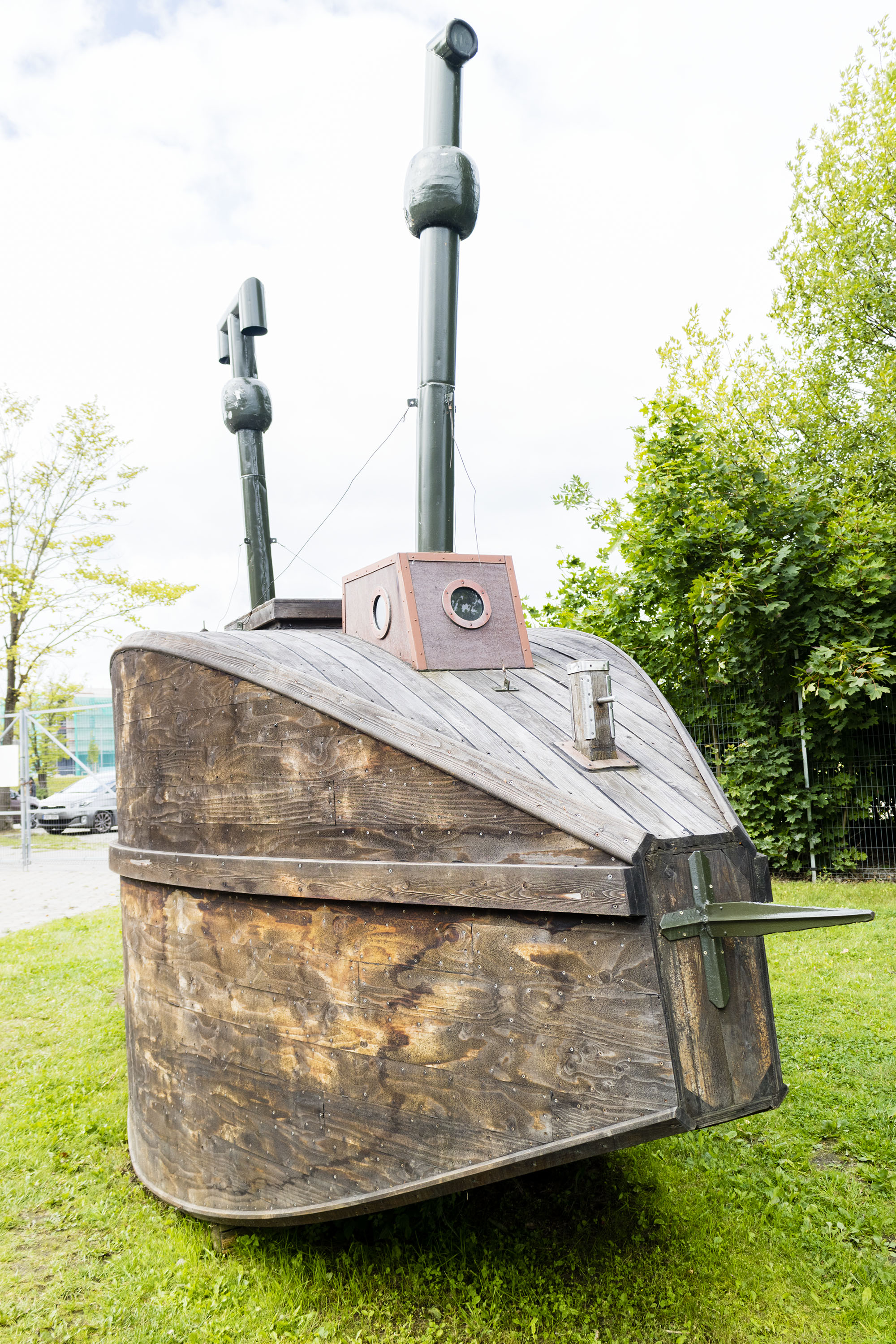 Replica of the first submarine by Ottomar Gern built in 1854